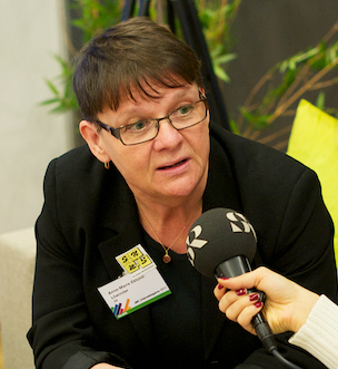 Portrait of Anne-Marie Eklund Löwinder in an interview from Sveriges Radio on Internetdagarna